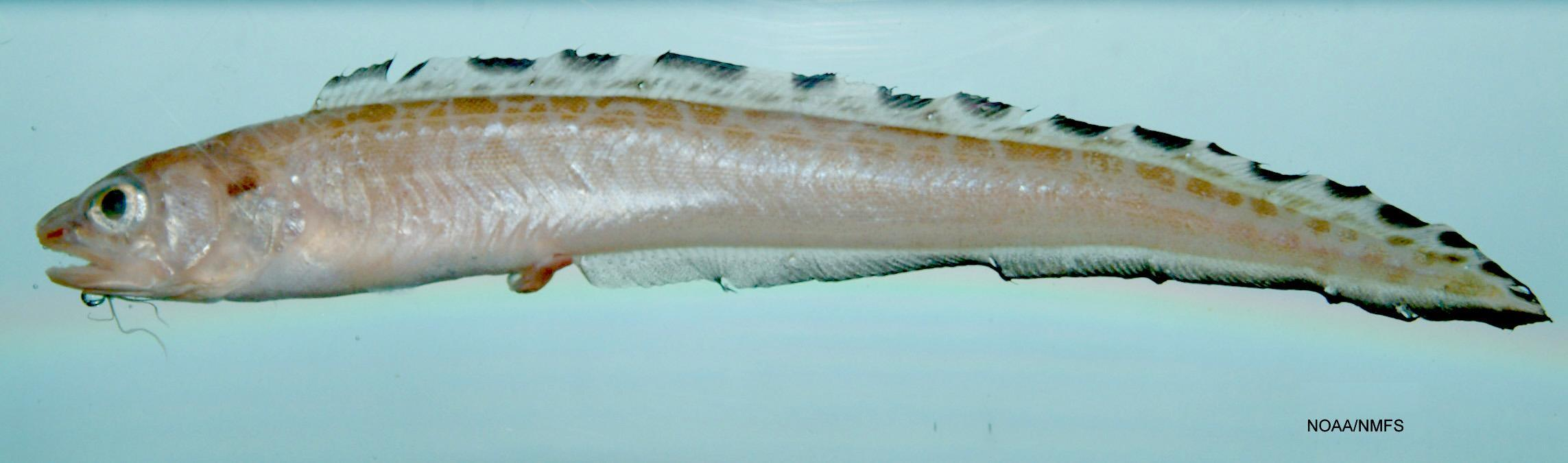 Lepophidium jeannae from the Gulf of Mexico